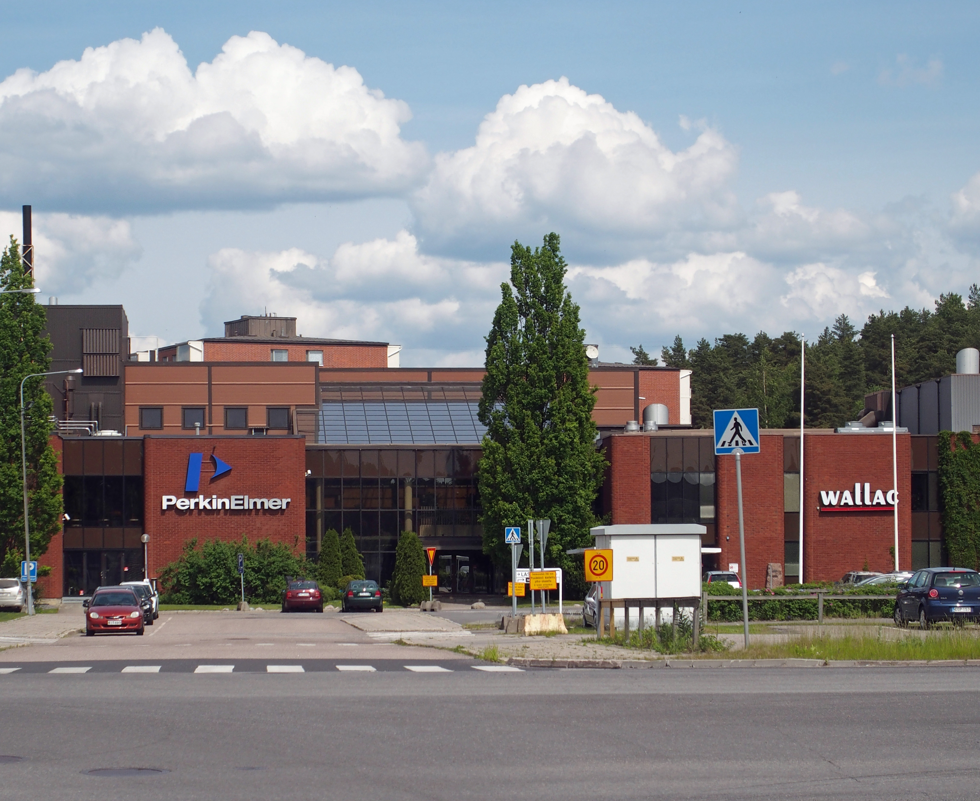 PerkinElmer and Wallac facilities in Lauste, Turku, Finland